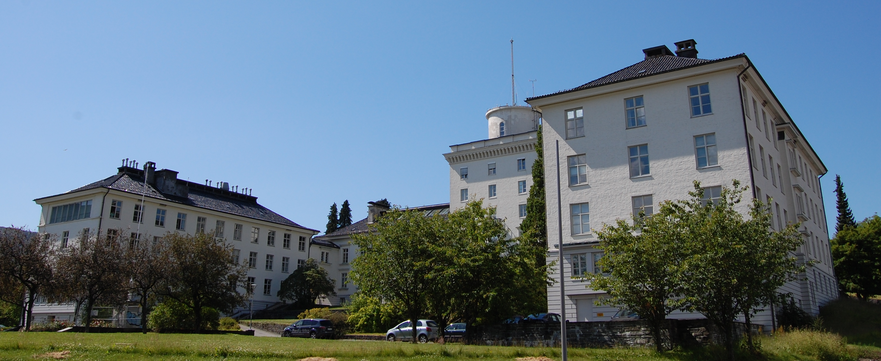 Geofysisk institutt (1928-51), Bergen, Norway.